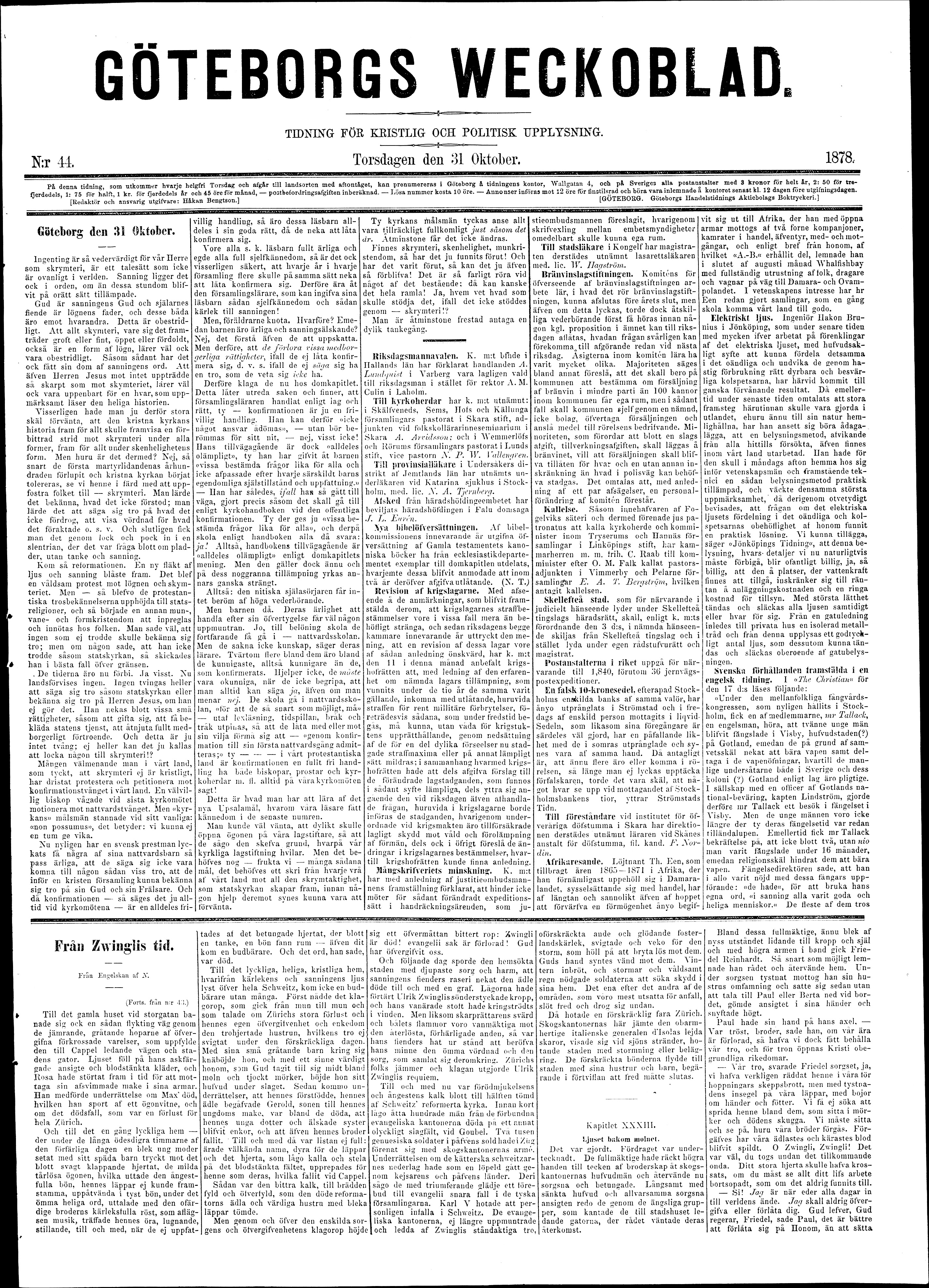 Digitized newspaper: Göteborgs weckoblad. Date 1878-10-31